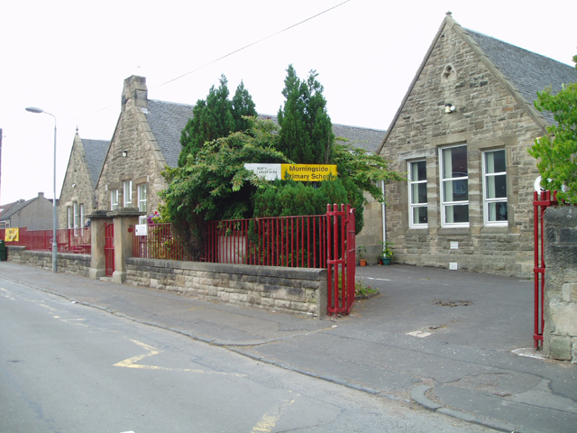 Morningside Primary School, North Lanarkshire. A small rural primary school in this settlement close to Wishaw.